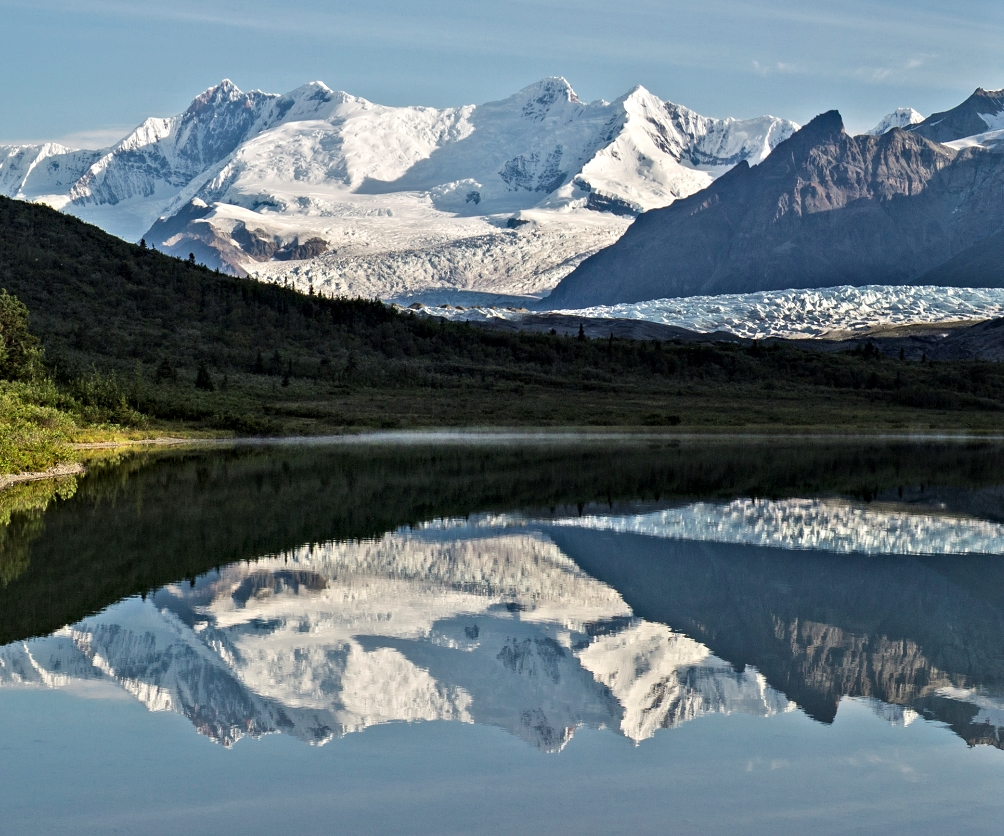 Parka Peak reflected in second Donoho Lakes. Atna Peaks to left.